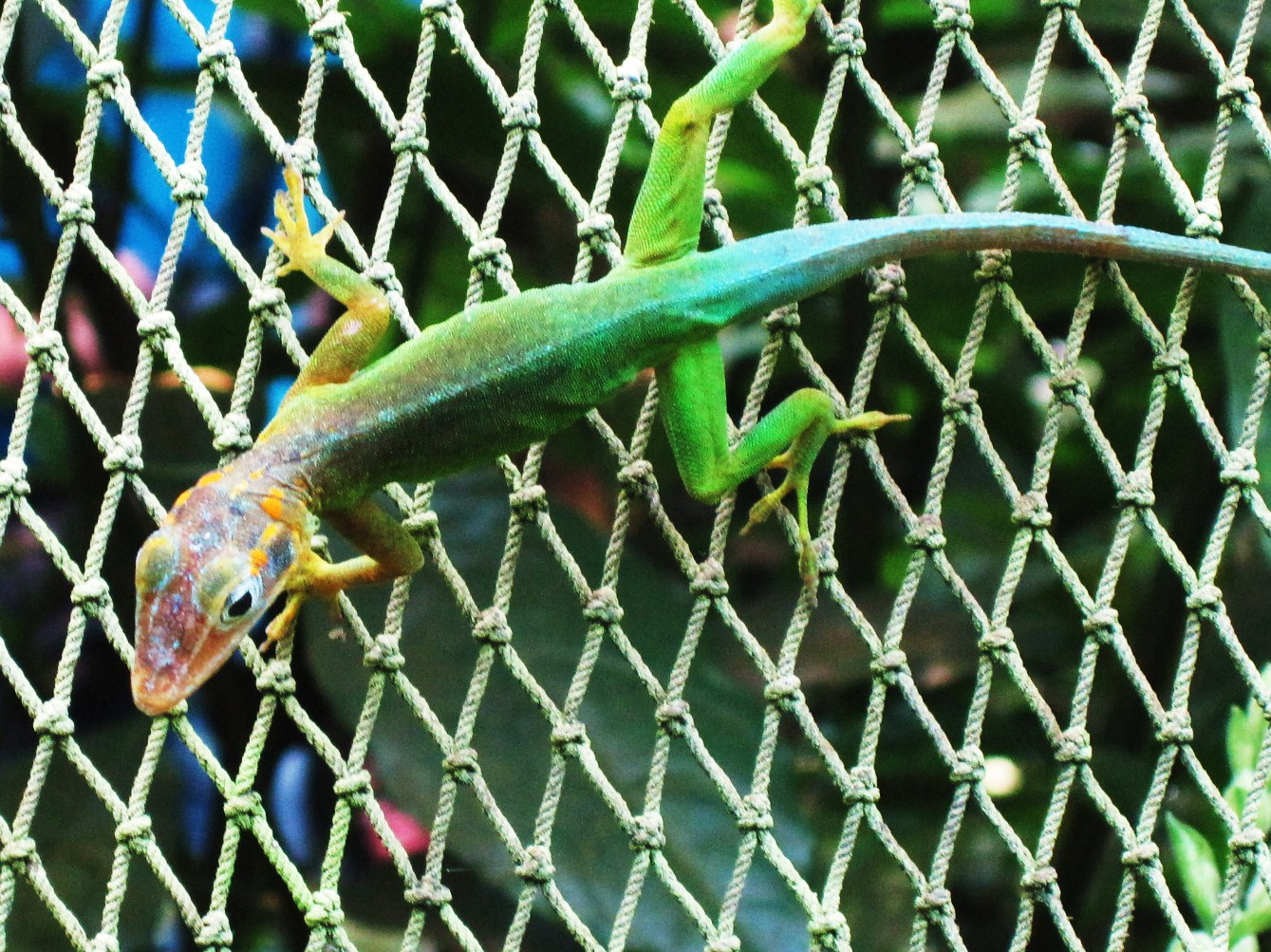 Anolis marmoratus (Leopard anole) male, Burgers zoo, Arnhem, the Netherlands